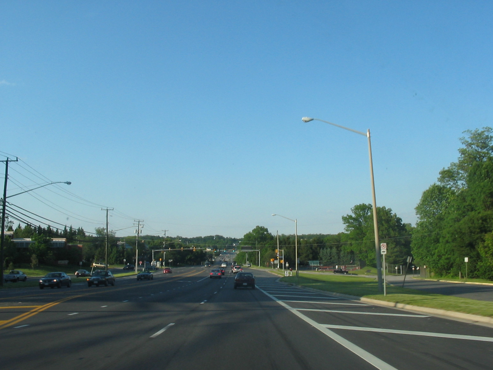 Image taken by me for Wikipedia